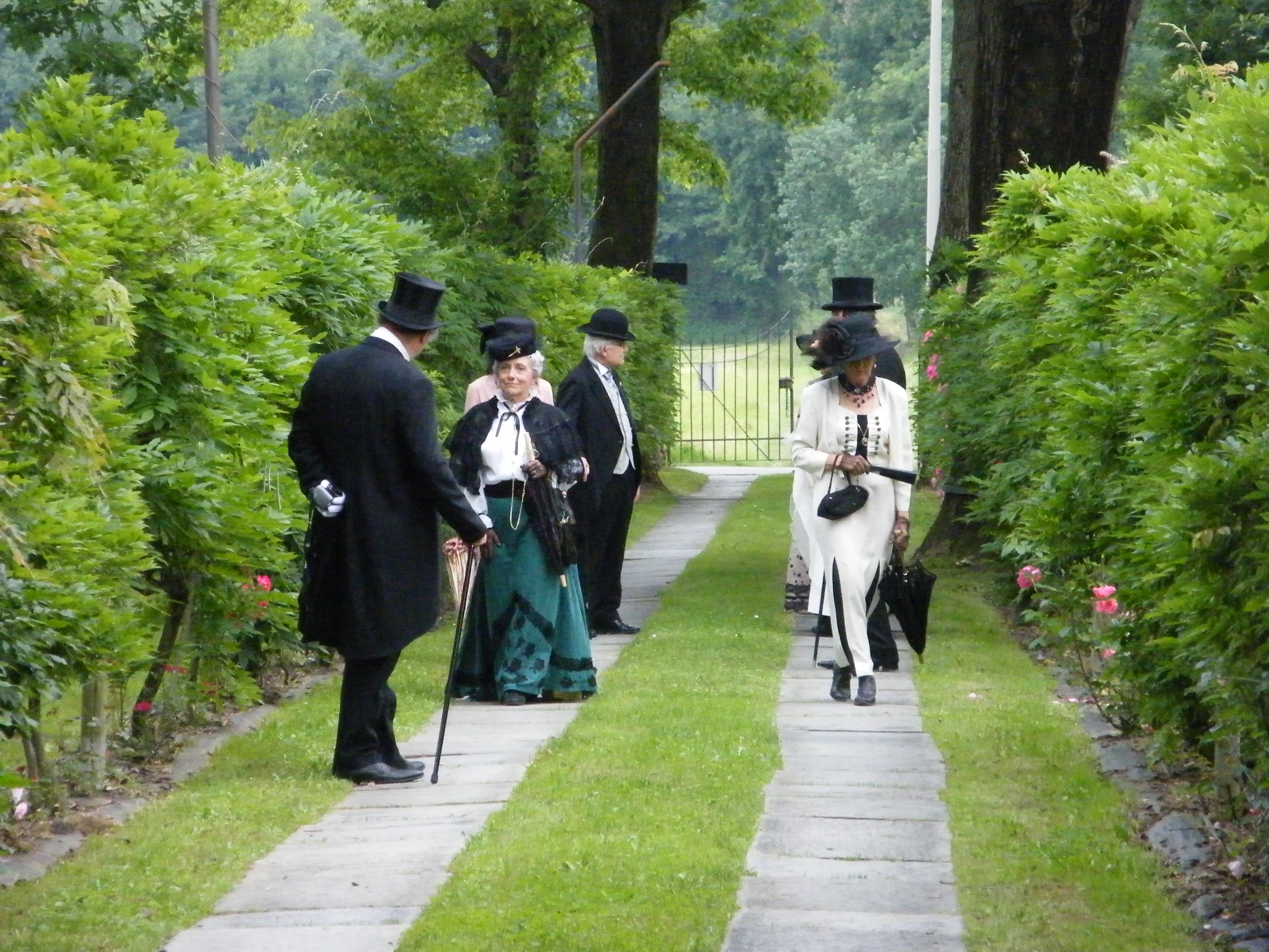 Recollection of past times, as a homage to the Italian poet Guido Gozzano. Agliè (Torino). June 2012